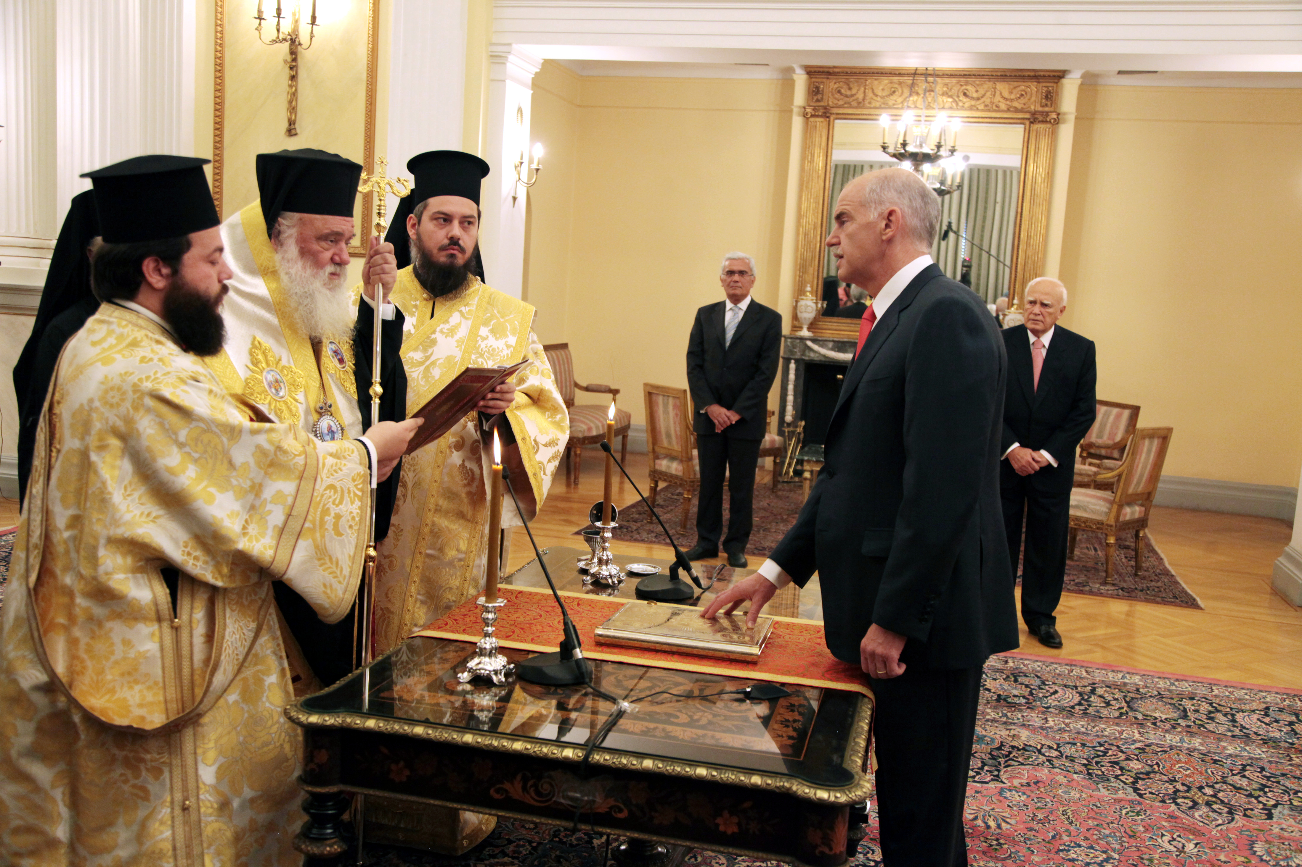 George Papandreou is sworn in as the 182nd Prime Minister of Greece before the President of Greece Karolos Papoulias by Archbishop of Athens Ieronymos II at the Presidential Palace in Athens, Greece, Oct. 6, 2009.